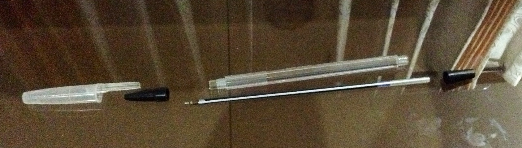 The parts of a ballpoint pen.